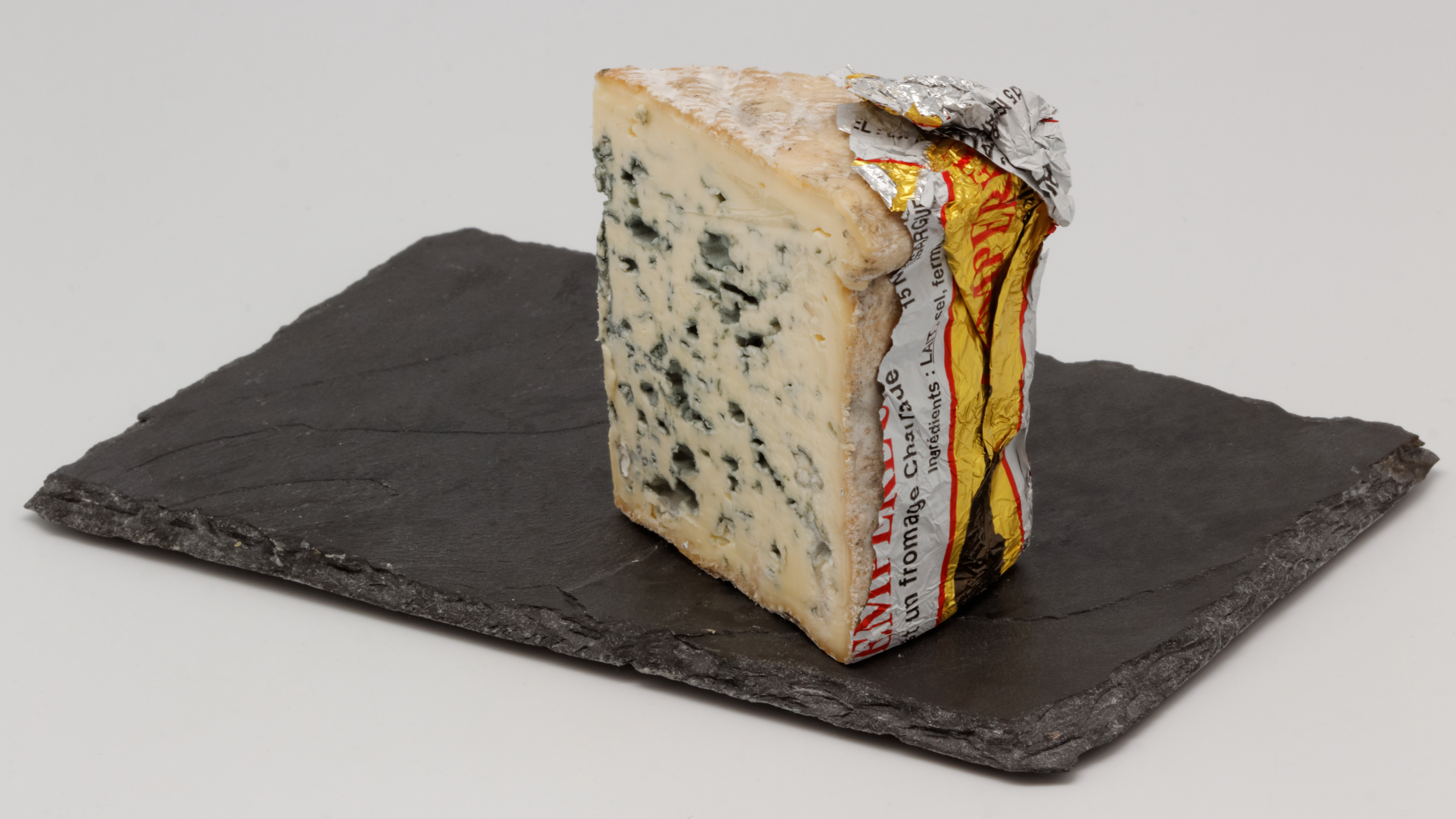 Bleu d'Auvergne